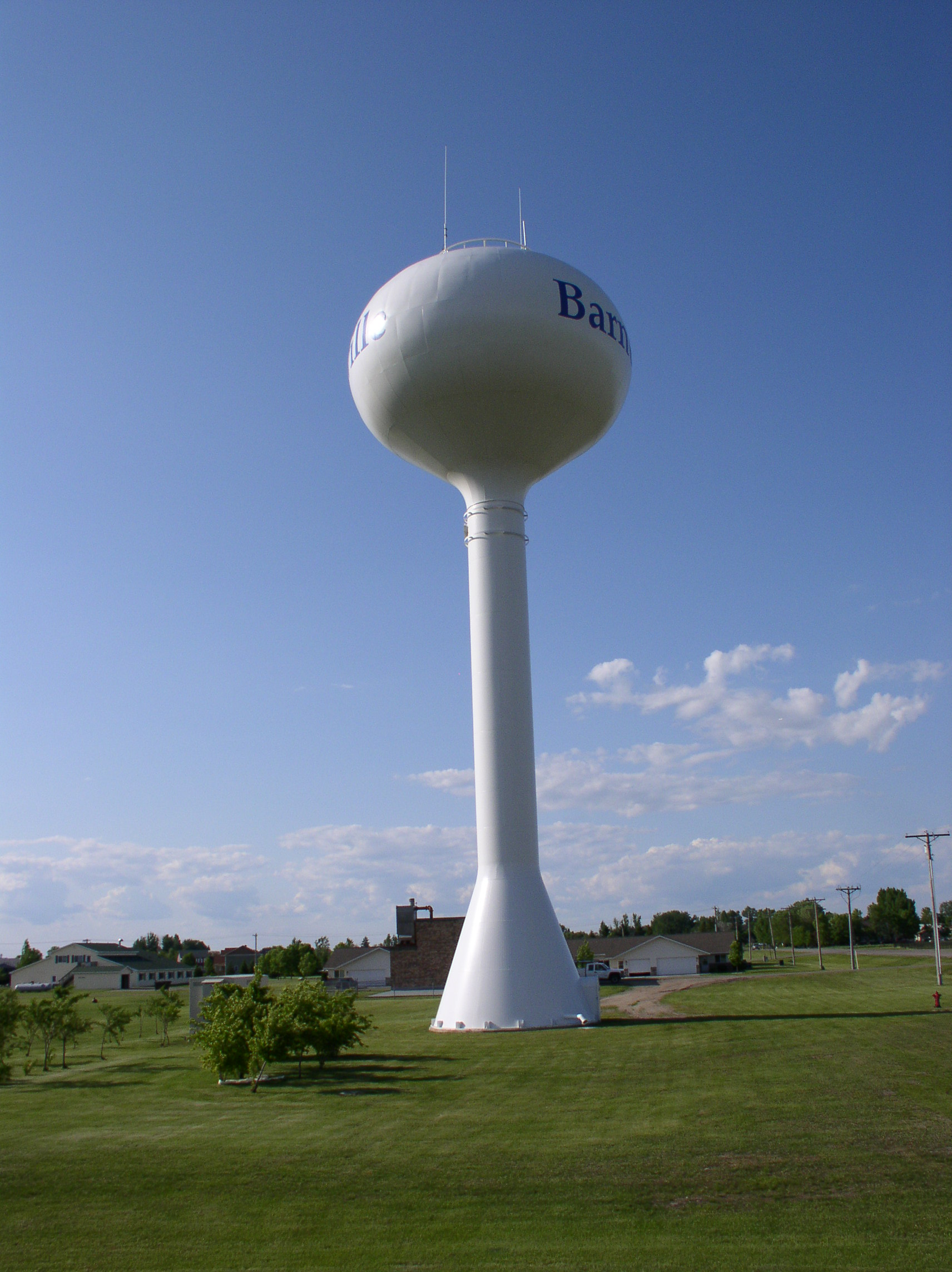 The water tower in Barnesville, MN.